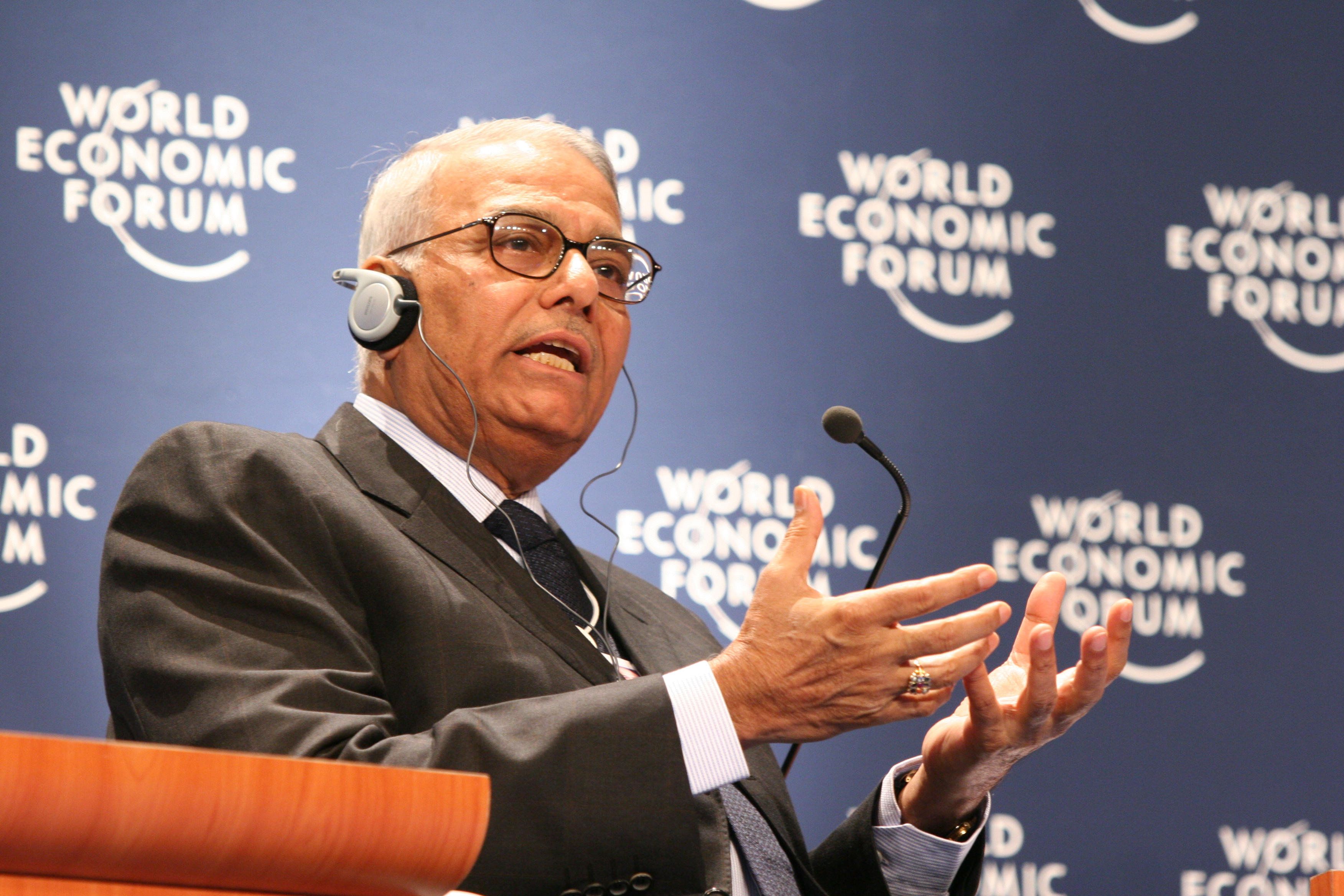 Yashwant Sinha, Member of Parliament; Minister of External Affairs (2002-2004) and Minister of Finance of India (1998-2002), captured during a session (Global Economic Leadership: Is Asia in the Driver’s Seat?) of the World Economic Forum on East Asia 2008 in Kuala Lumpur, Malaysia, June 15, 2008.